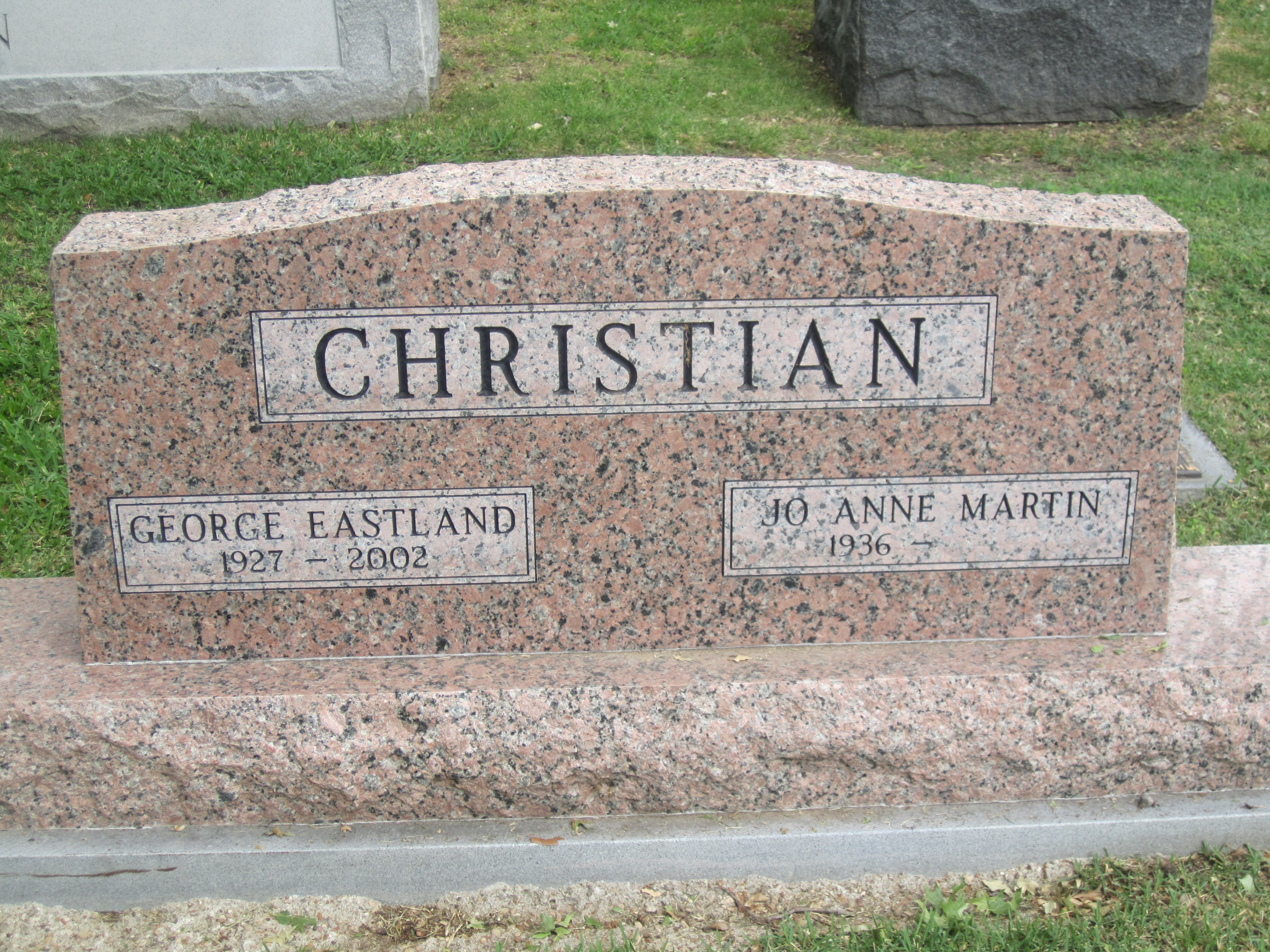 I took photo with Canon camera of George Christian monumnet at TX State Cemetery in Austin.